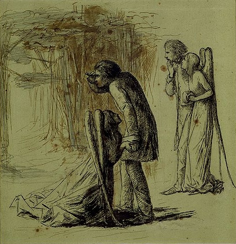 Illustration for Edgar Allan Poe's poem "Ulalume".